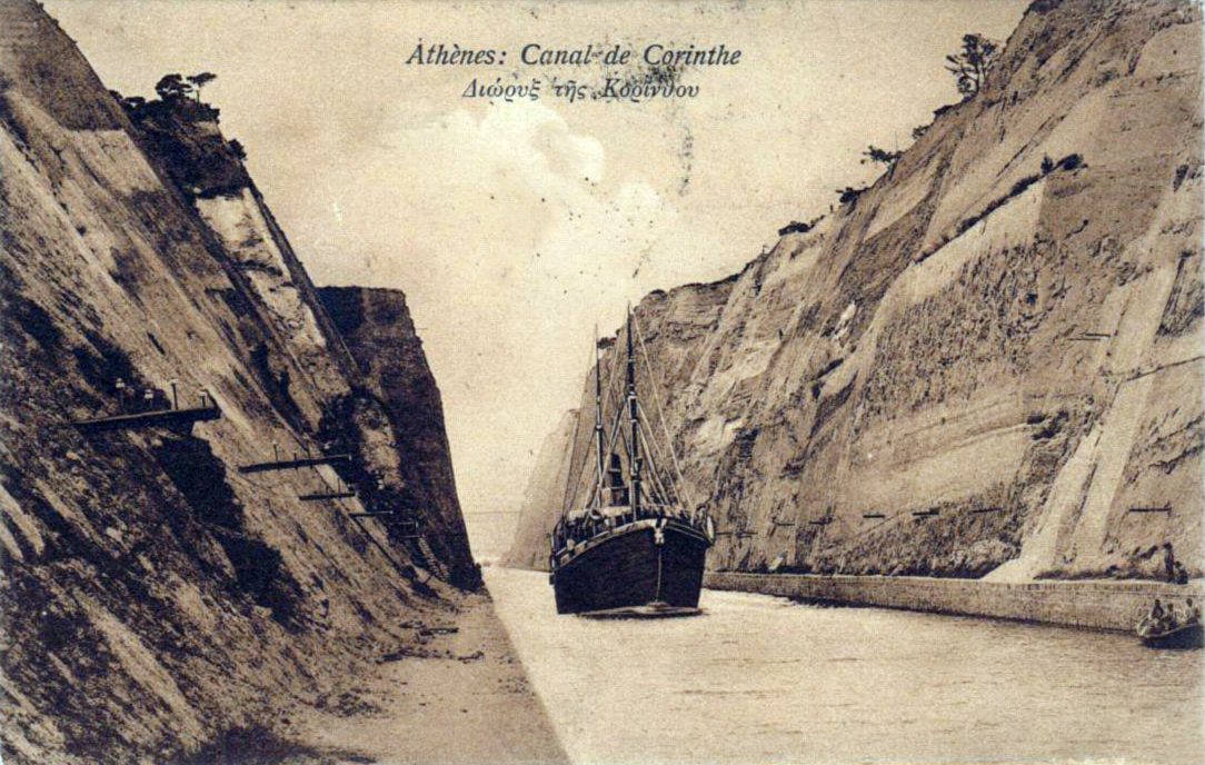 Corinth 1894